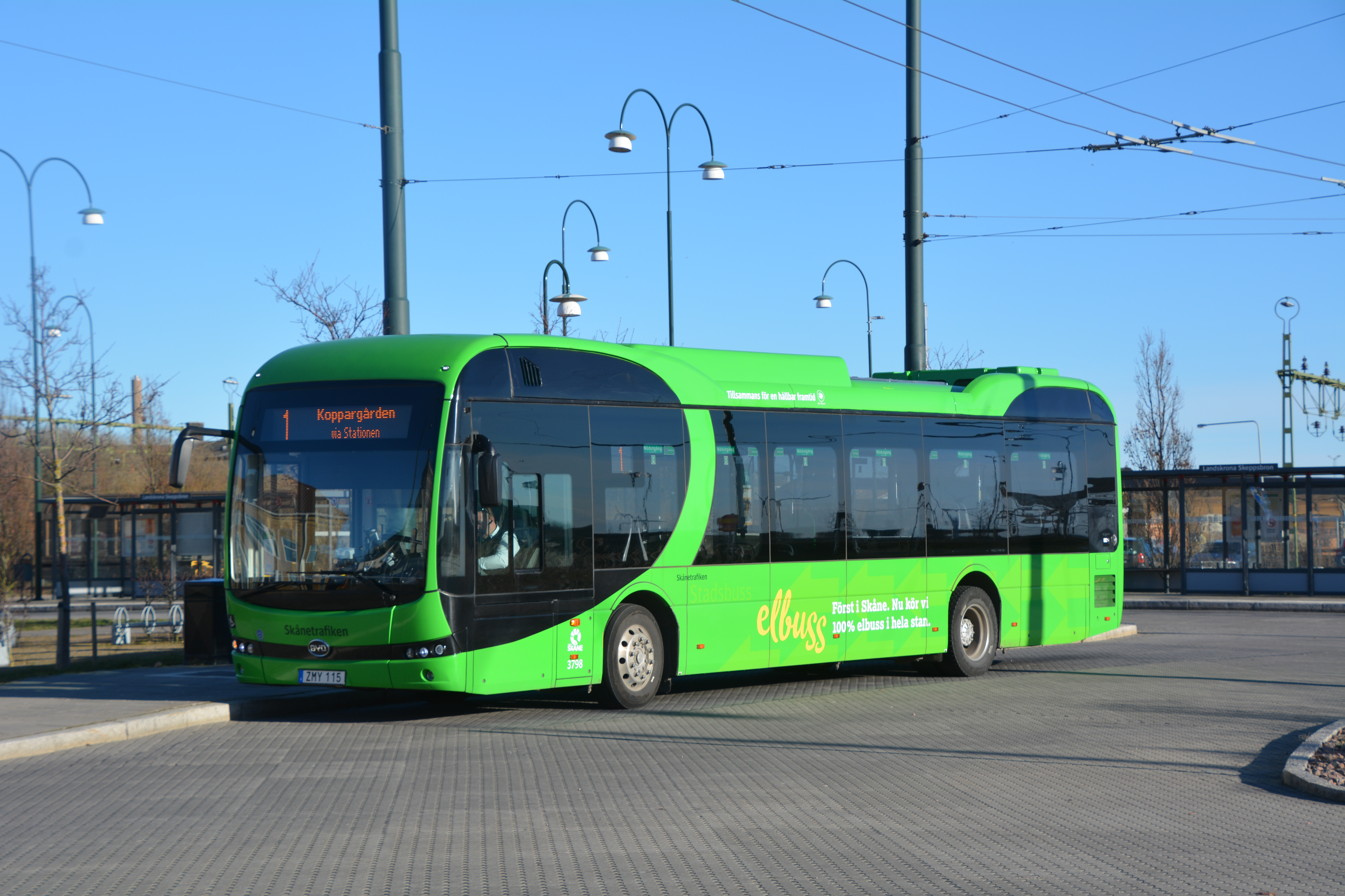 BYD electric bus in Landskrona, Sweden